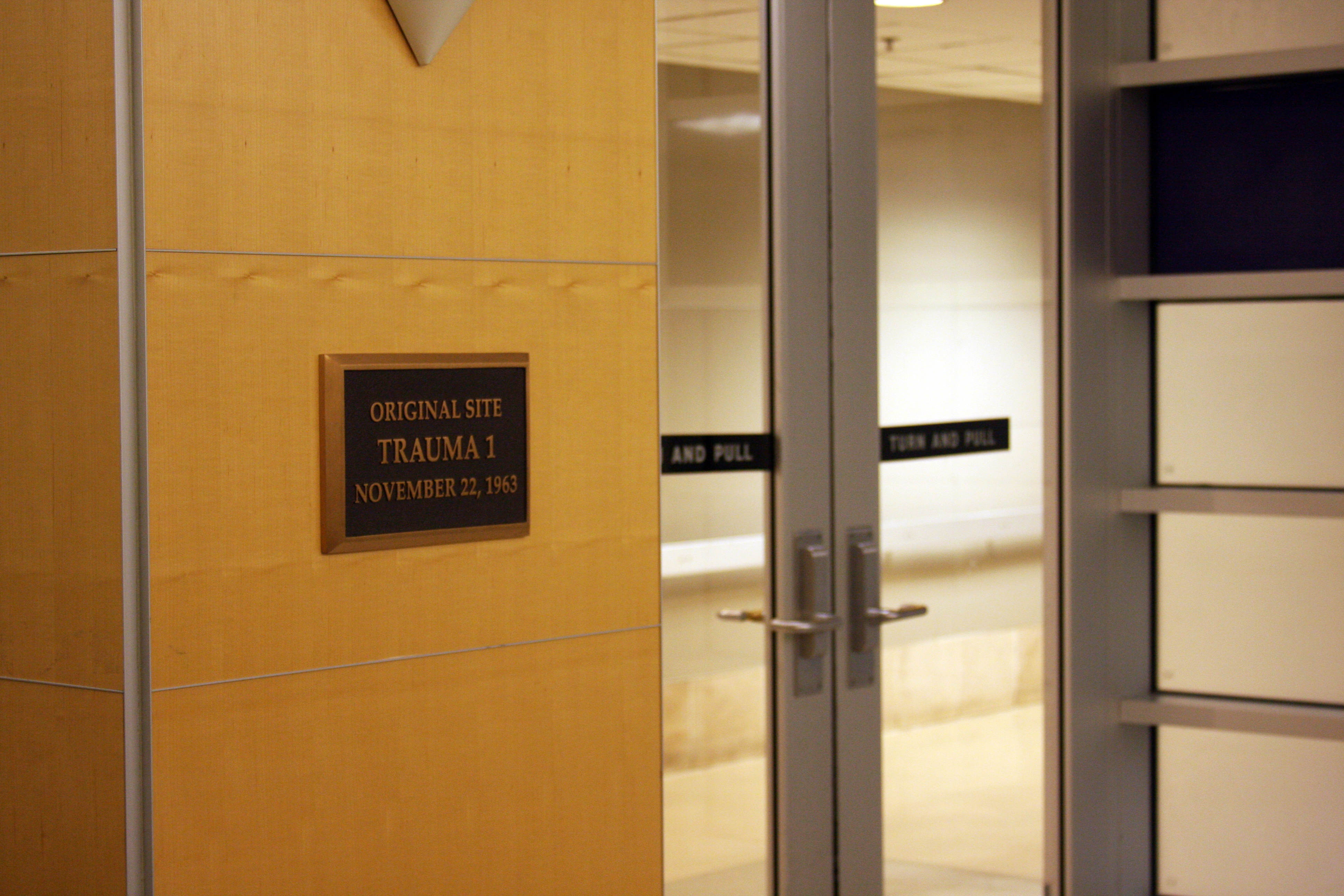 This is the plaque that indicates the precise location of Parkland Hospital's Trauma Room I bed on November 22, 1963 when President John F. Kennedy was taken there.